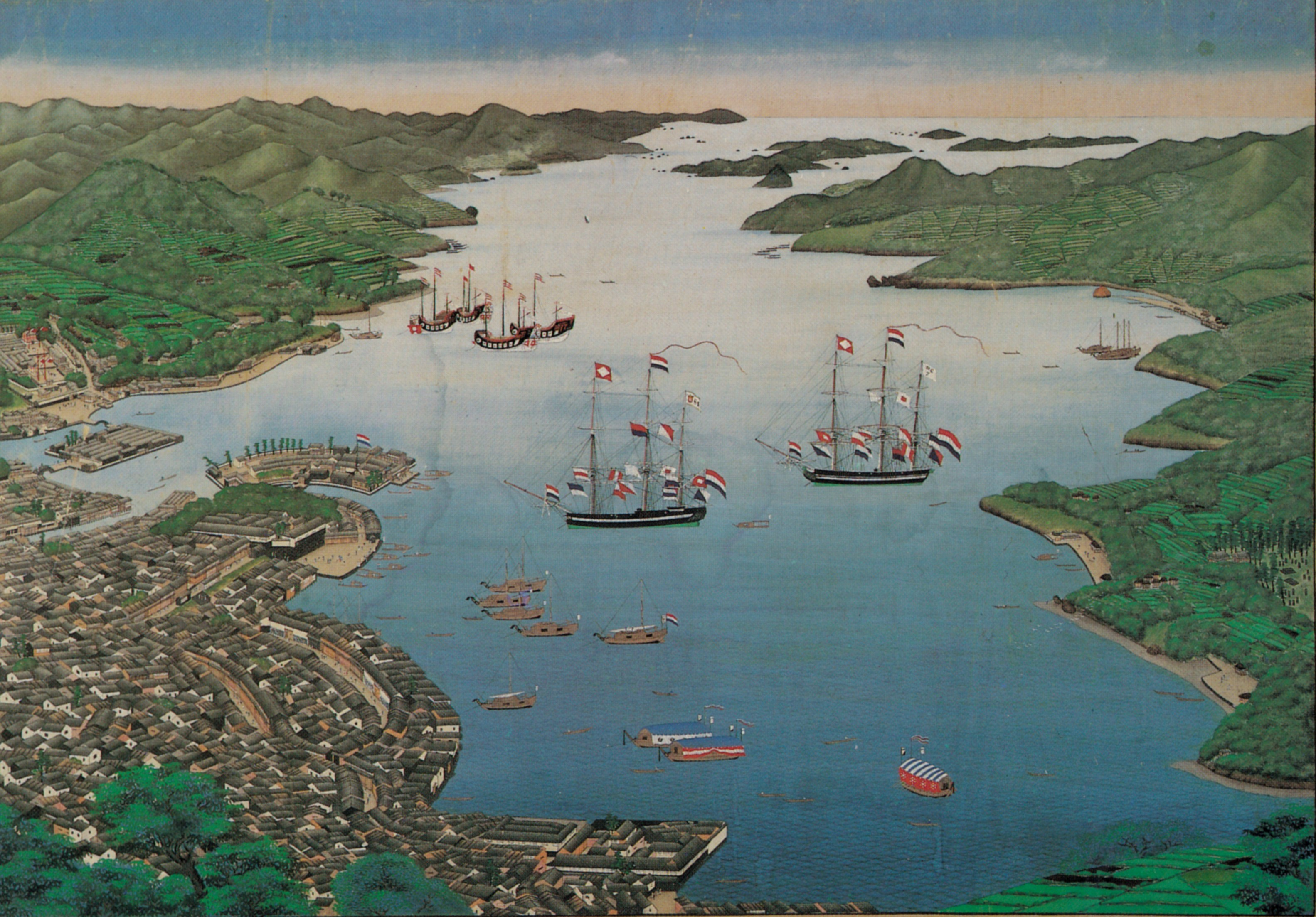 Bird's-eye view of the Nagasaki bay, with the island Dejima at mid-left. "Nagasaki port map" drawn by Kawahara Keiga.